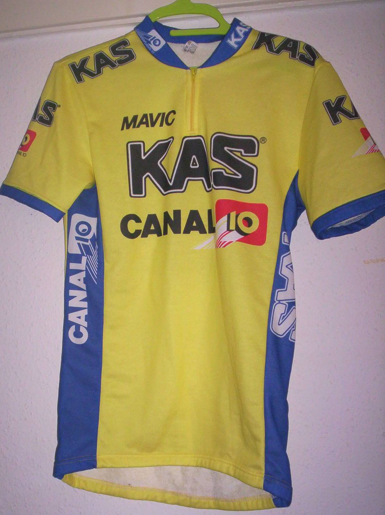 Kas cycling jersey from circa 1988